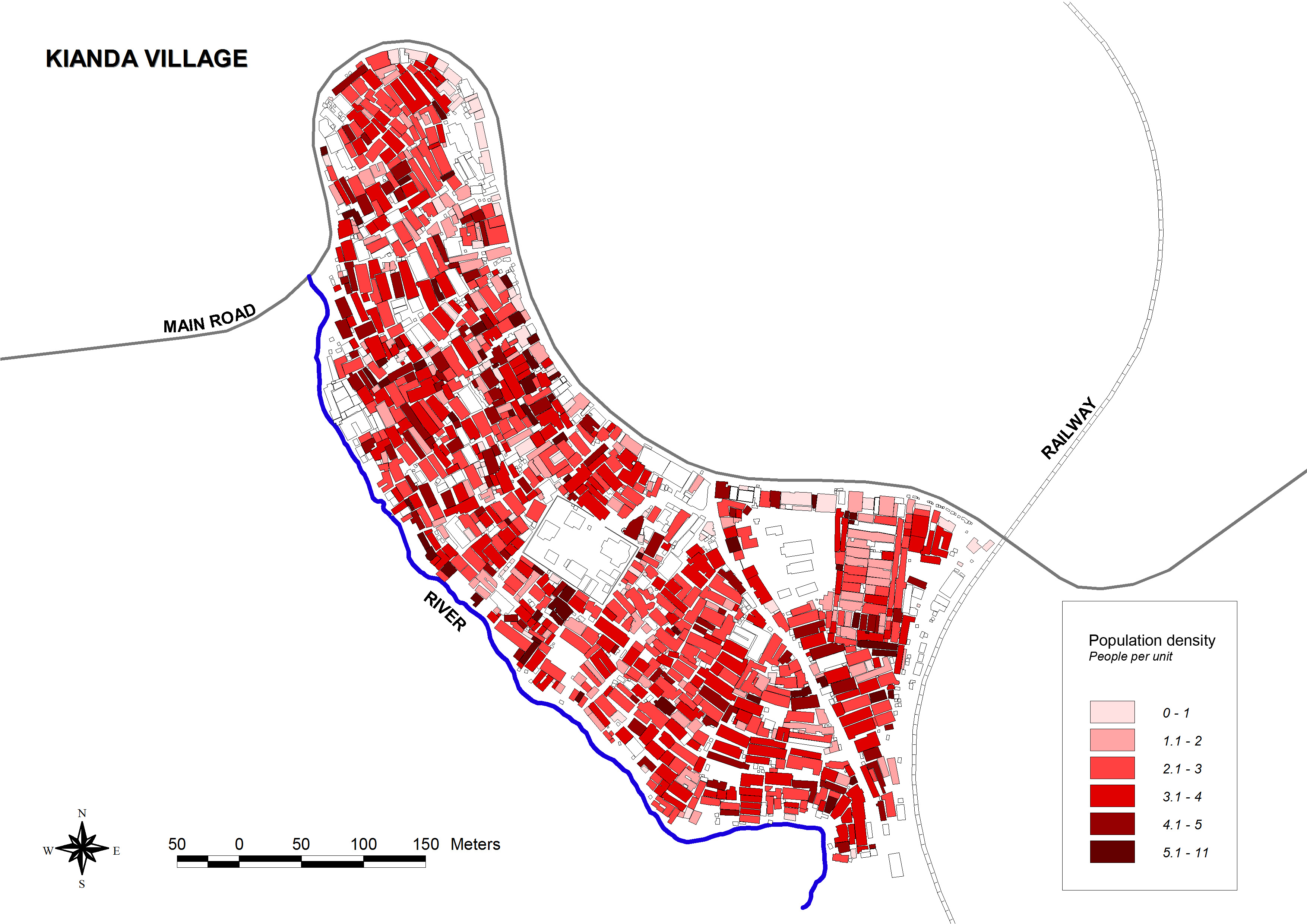 This map shows the population density in the Kianda village (Kibera slum - Nairobi, Kenya). Density = people per room